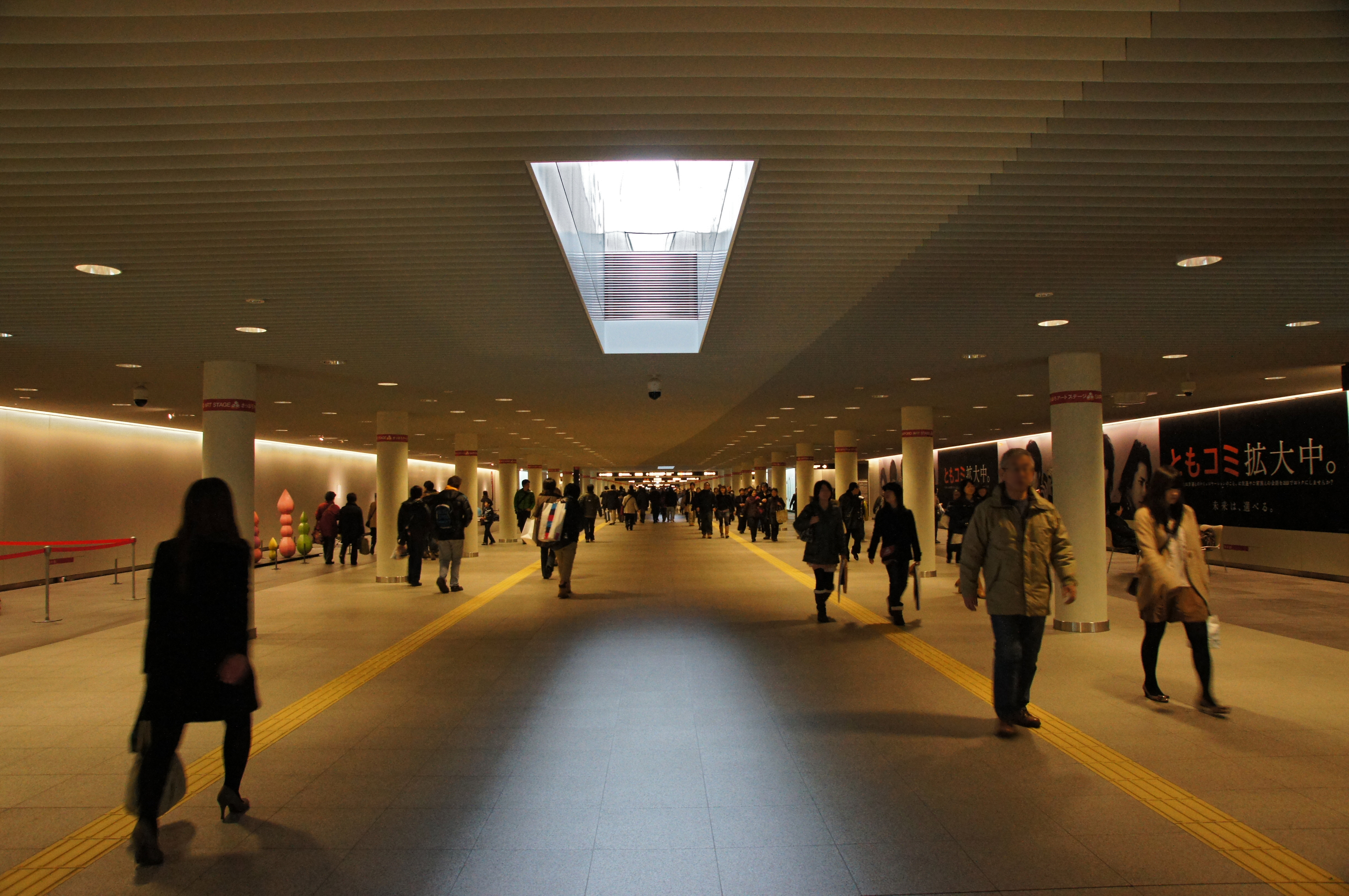 Sapporo Underground Pedestrian Space Station Road in Sapporo, Hokkaido prefecture, Japan